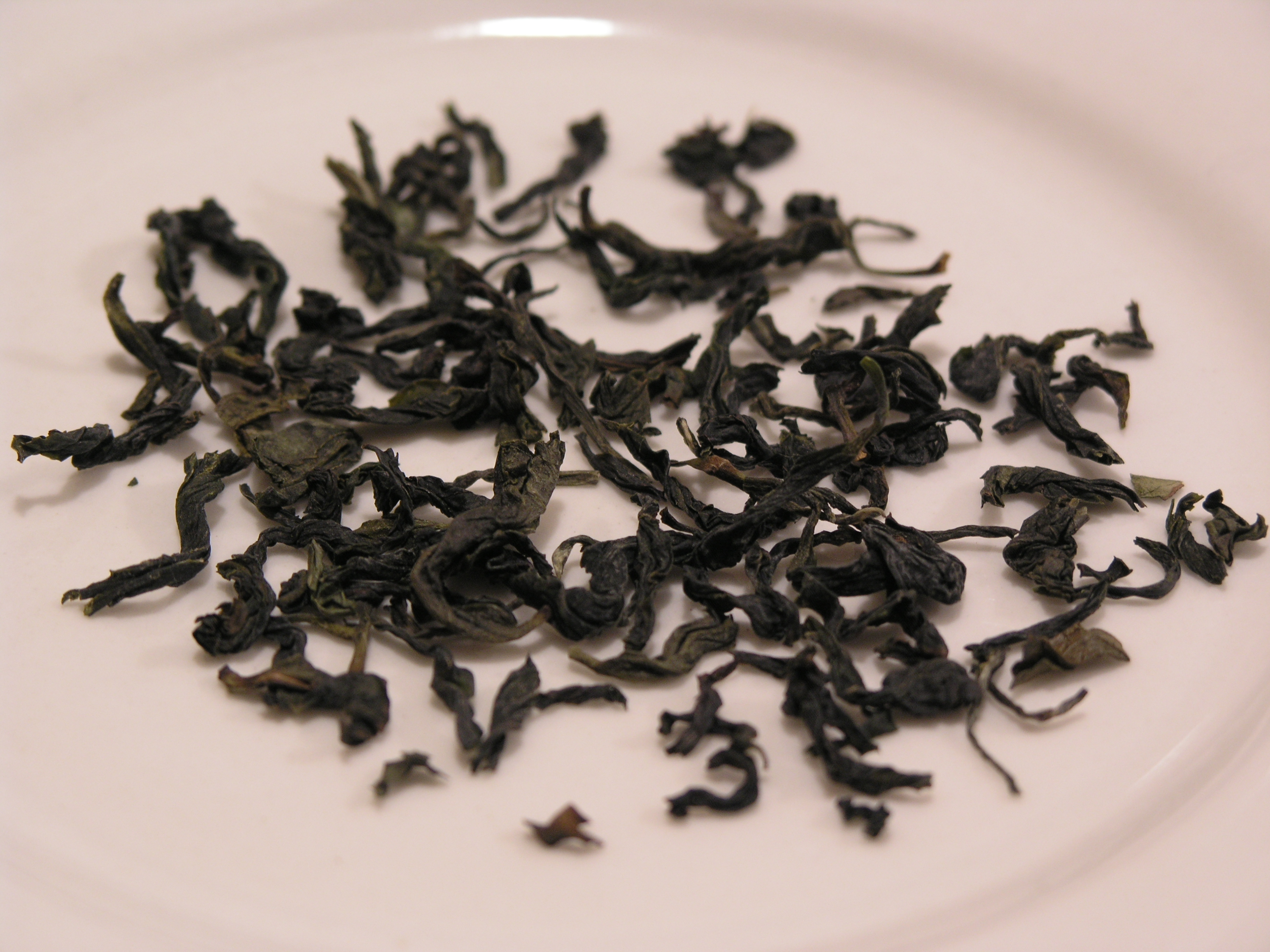 Spring Pouchong tea leaves on a plate